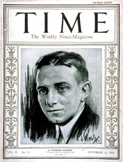 S. Parker Gilbert Jr. | Sep. 15, 1924, Appointed permanent Agent General of Reparations under the Experts' Plan